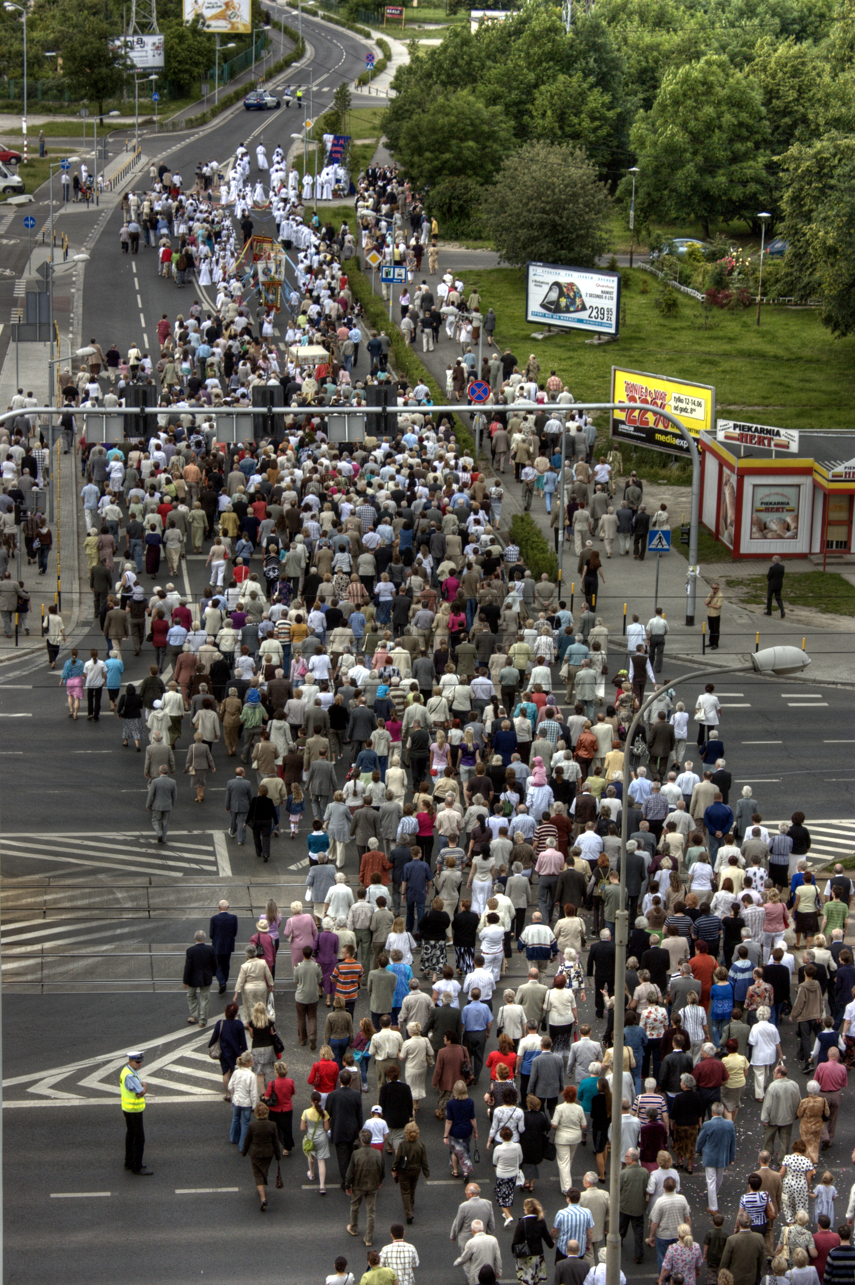 The ceremonial parade for the celebration of "Corpus Christi", which "is dedicated to celebrating the dogma that the bread and wine eaten and drunk during the masses are actually Christ's flesh and blood." Boże Ciało